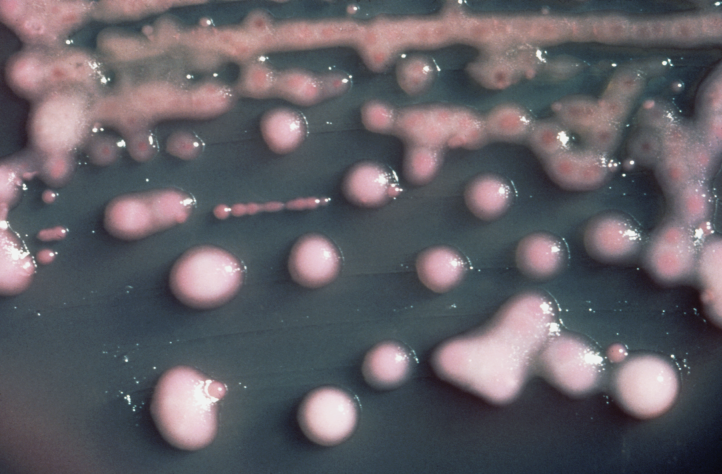 ID #6689. This inoculated MacConkey agar culture plate cultivated colonial growth of Gram-negative, small rod-shaped and facultatively anaerobic Klebsiella pneumoniae bacteria. K. pneumoniae bacteria are commonly found in the human gastrointestinal tract, and are often the cause of hospital acquired, or nosocomial infections involving the urinary and pulmonary systems.